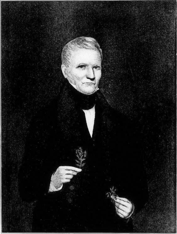 Portrait of American herbalist Samuel Thomson, creator of the "Thomsonian System".